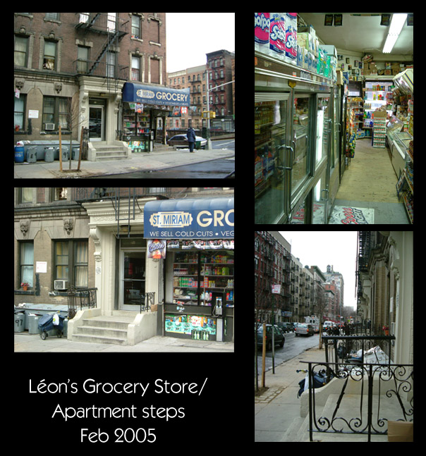 Frames of various locations of the "Leon" film.